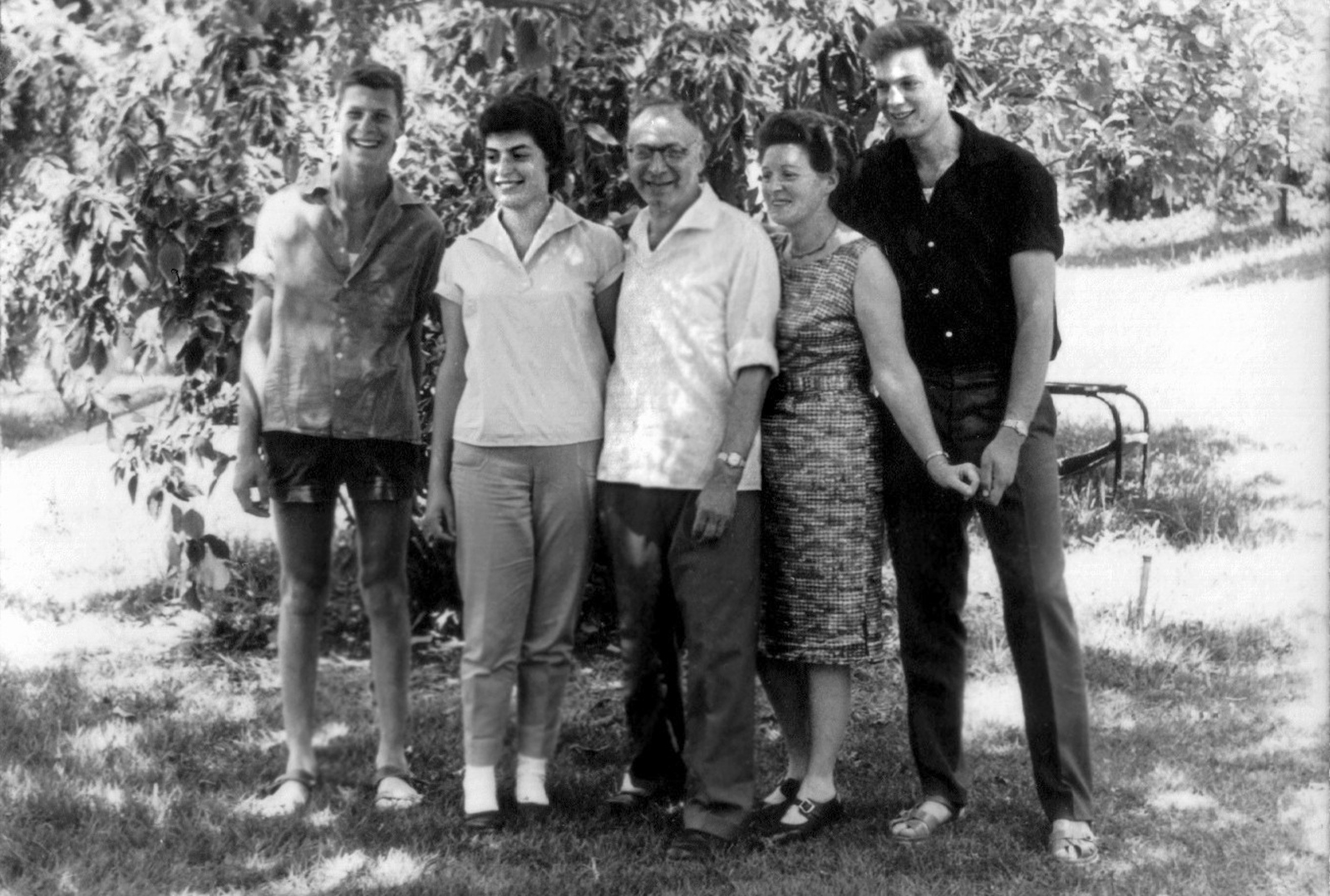 Menachem Oren and Family